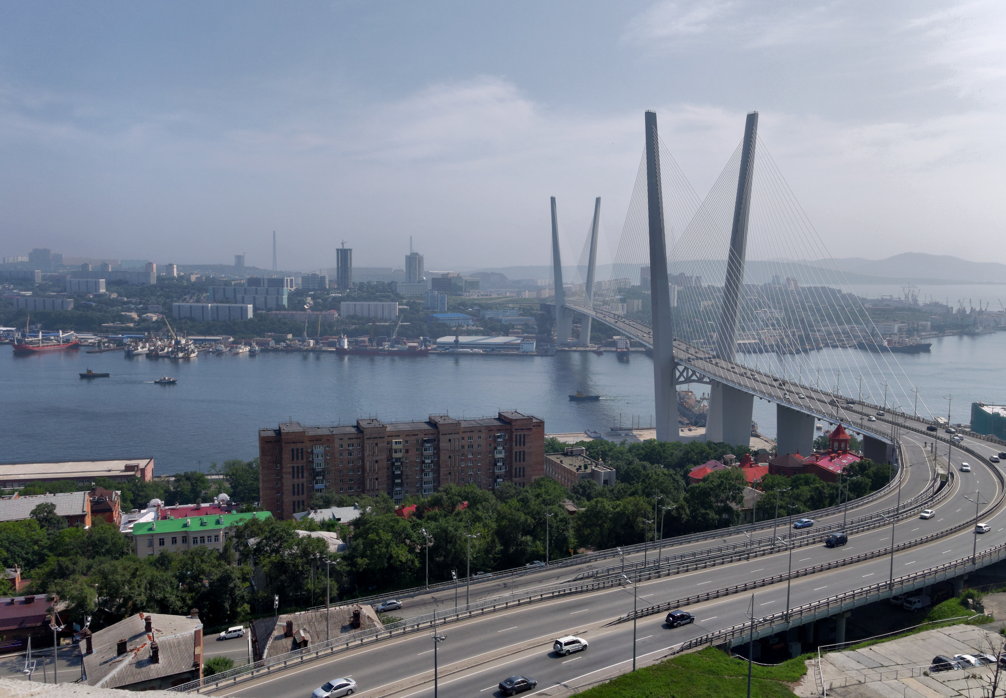 Vladivostok. Zolotoy Rog Bay